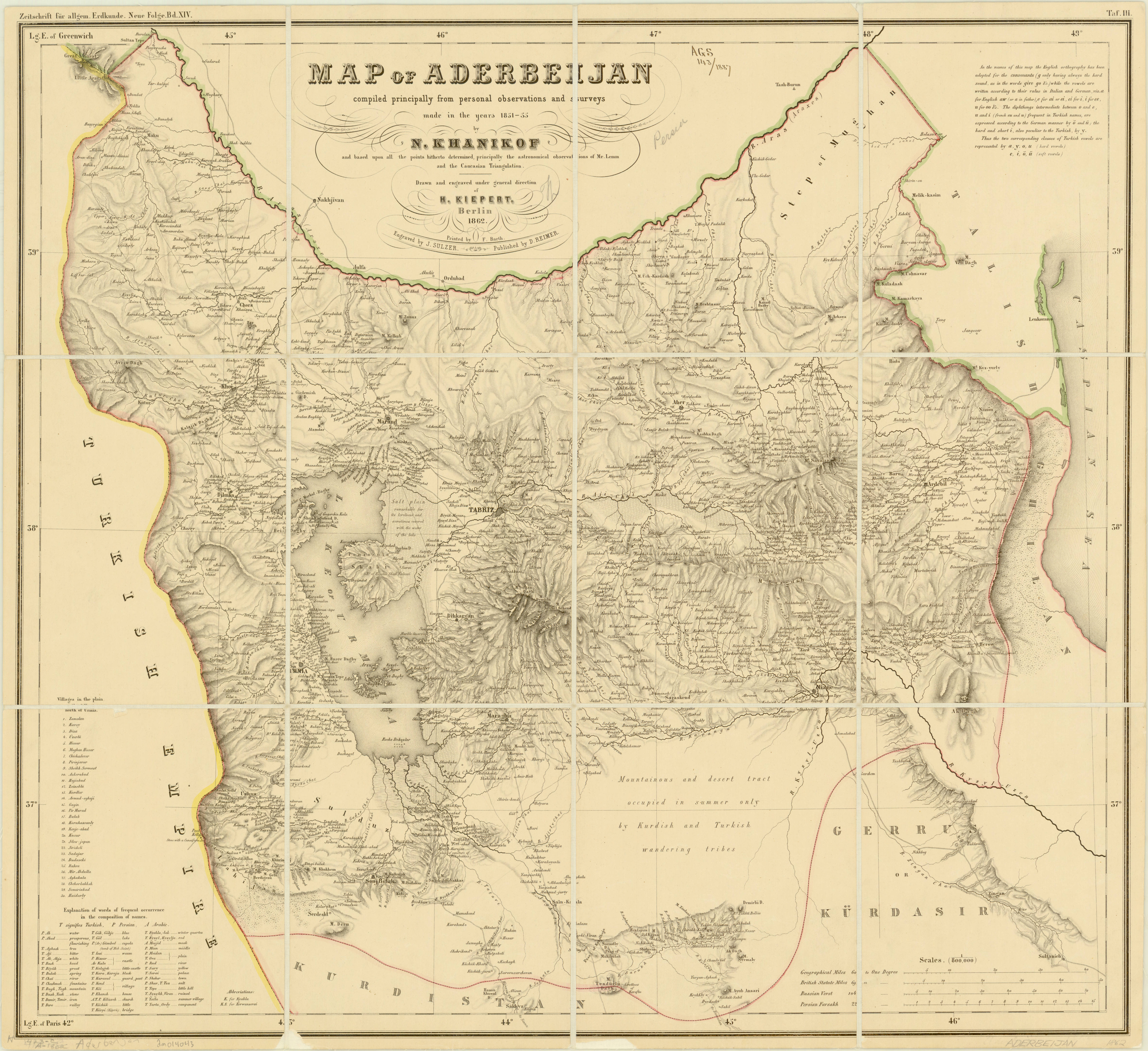 Map of Azerbaijan compiled principally from personal observations and surveys made in the years 1851-55 by N. Khanikof and based upon all the points hitherto determined, principally the astronomical observations of Mr. Lemm and the Caucasian Triangulation. drawn and engraved under general direction of H. Kiepert ; engraved by J. Sulzer ; published by D. Reimer